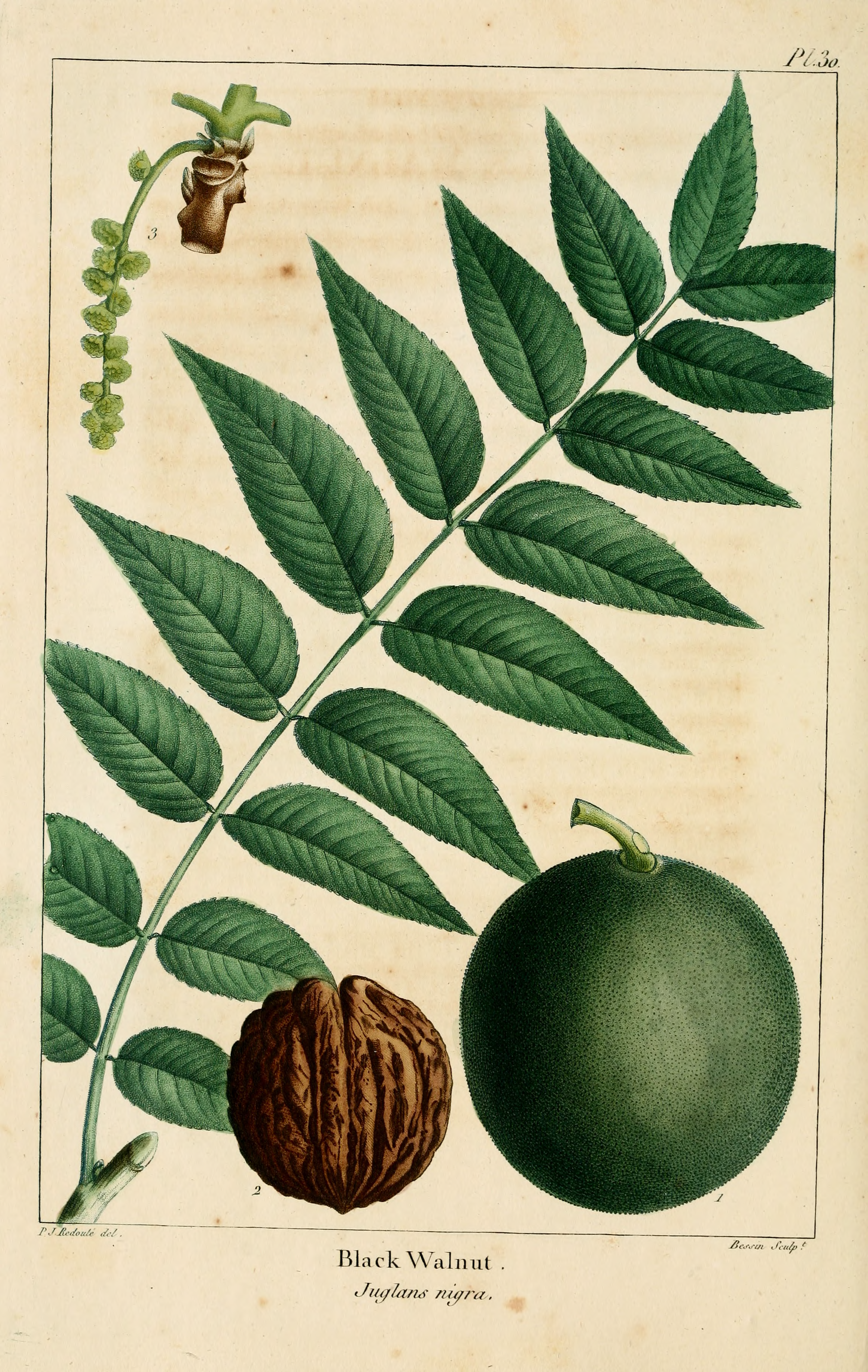 Pl. 30. Black Walnut. Juglans nigra.